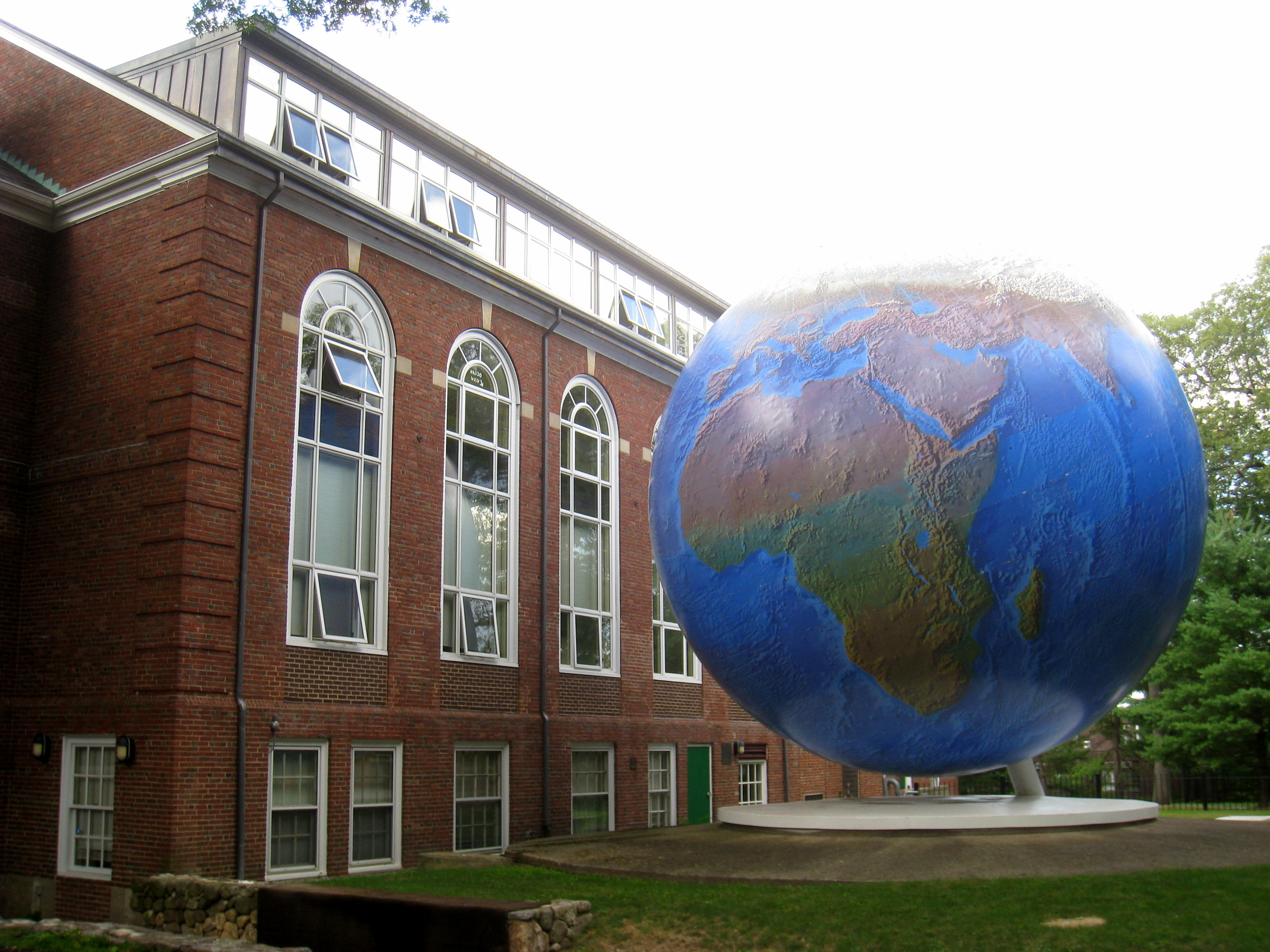 Globe, Babson College, 231 Forest Street, Wellesley, Massachusetts, USA.